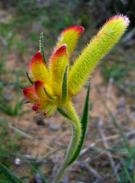 Anigozanthos humilis - Common Catspaw